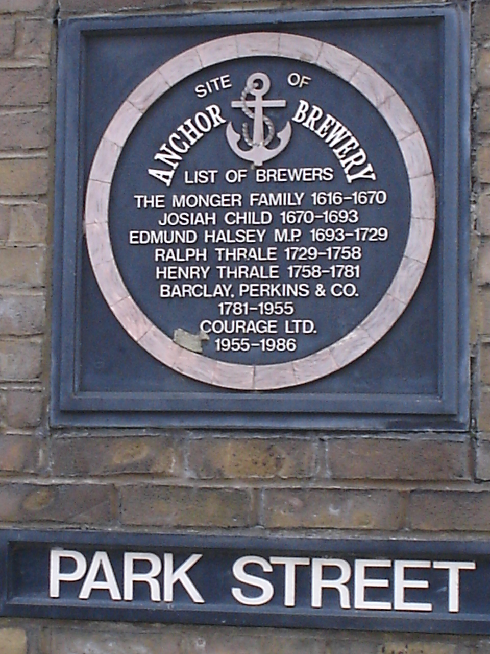 Plaque in Park Street, Southwark, London recording the location of the former Anchor Brewery. This image represents an Open Plaques entry #11723.